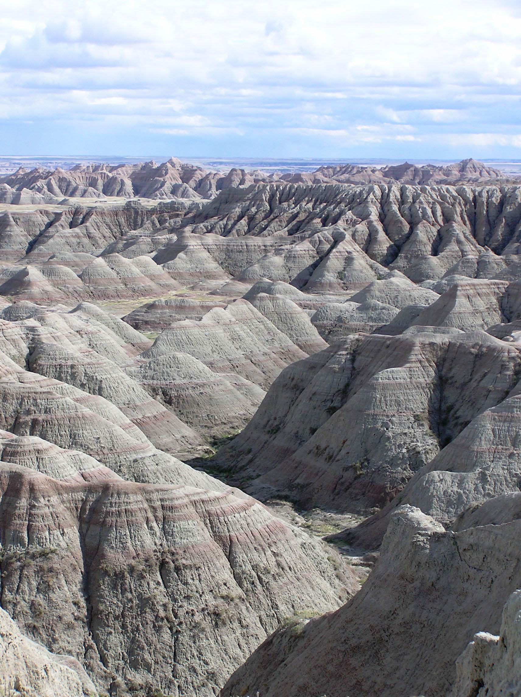 Badlands National Park, South Dakota.